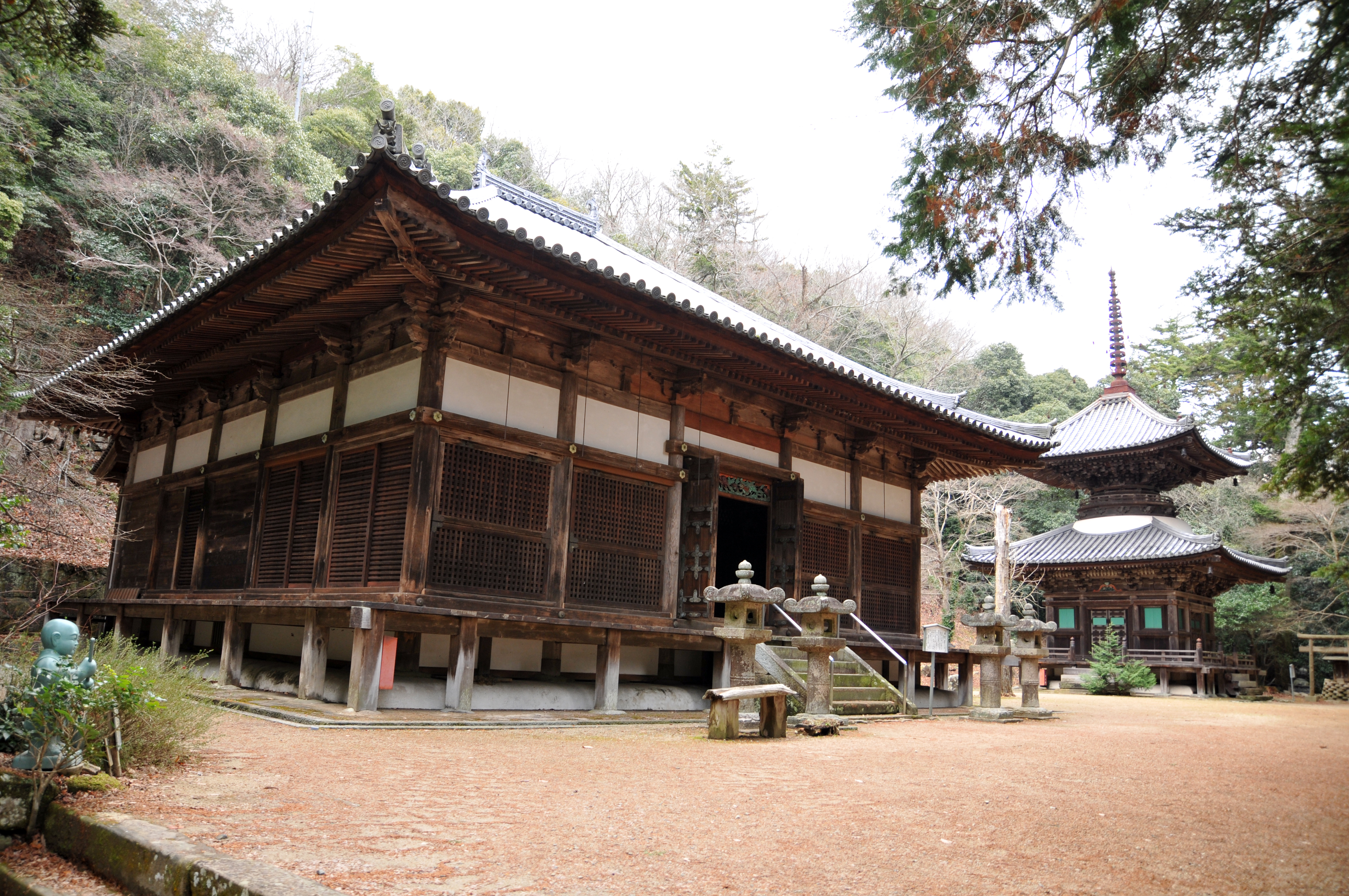 Gaya-in tample